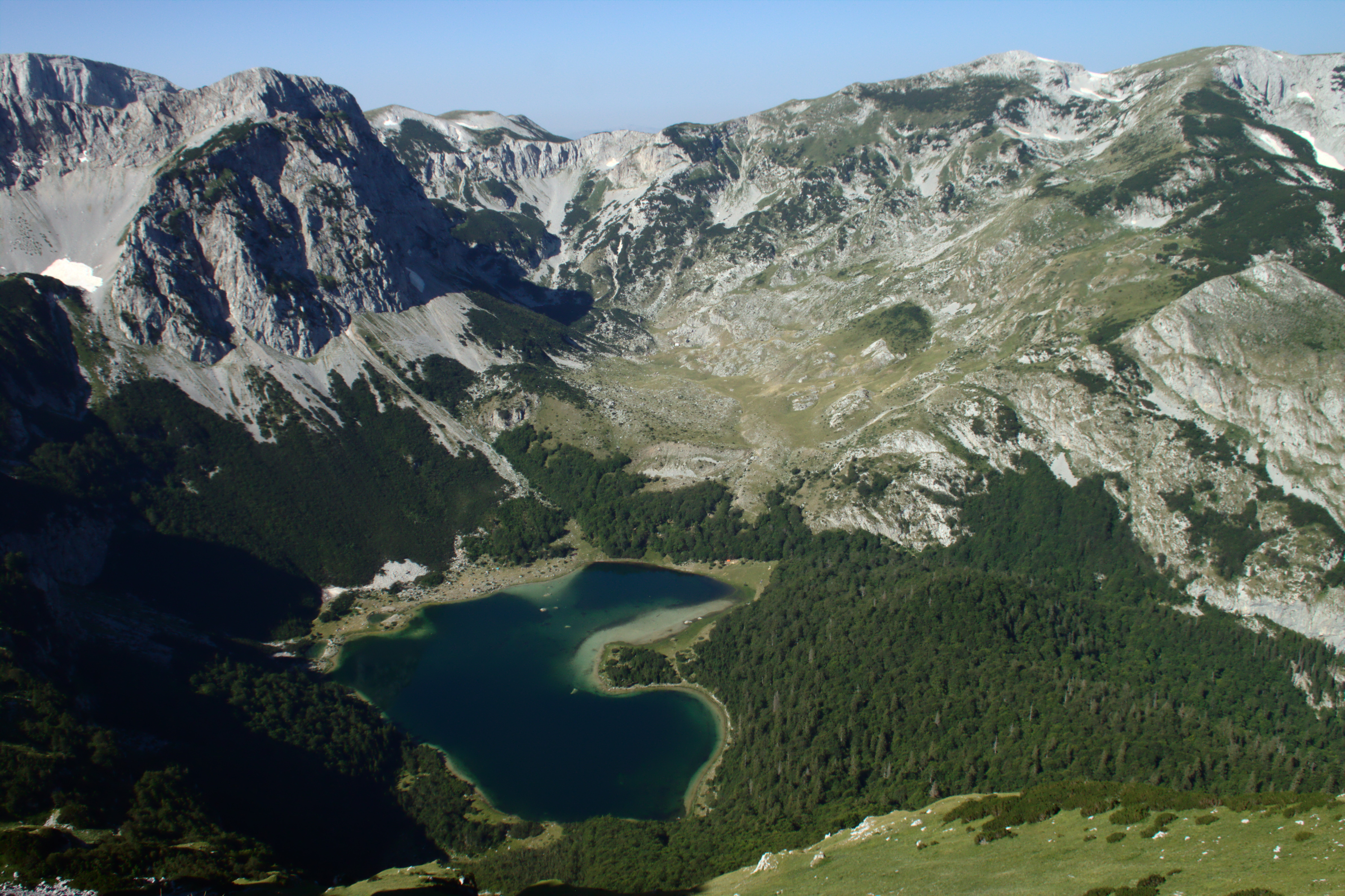 Trnovačko jezero Lake from Maglić mountains, Montenegro